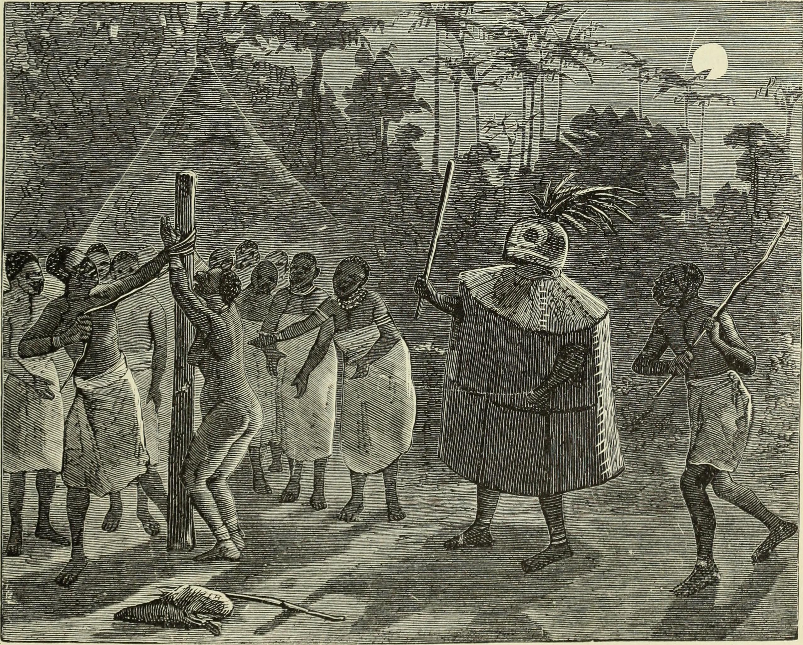 Title: The uncivilized races of men in all countries of the world; being a comprehensive account of their manners and customs, and of their physical, social, mental, moral and religious characteristics. By Rev. J. G. Wood... With new designs by Angas, Danby, Wolf, Zwecker... 1871 Year: 1877 (1870s) Authors: Wood, John George, 1827-1889 Subjects: Ethnology. Manners and customs. Savages Publisher: J. B. Burr and company Text Appearing Before Image: (1.) THE ALAKES COURT. (See page 599.) Text Appearing After Image: (2.) MUMBO JUMHO. (See page 604.)(605) CHAPTER LX. THE MANDIKGOES. liANGUAGE AND APPEARANCE OF THE MANDTNGOES — THEIR RELIGION — BELIEF IN AMULETS — A MAN-DINGO SONG — MARRIAGE AND CONDITION OF THE WOMEN — NATIVE COOKERY — A MANDINGO KING— INFLUENCE OF MAHOMETANISM. Before proceeding across the continenttoward Abyssinia, we must briefly notice theMandingo nation, who inhabit a very largetract of the country through which the Sene-gal and Gambia flow. They are deservingof notice, if it were only on the ground thattheir language is more widely spread thanany that is spoken in that part of Africa, andthat any traveller who desires to dispense asfar as possible with the native interpreters,w^ho cannot translate literally if they would,and would not if they could, is forced toacquire the language before proceedingthrough the country. Fortunately it is apeculiarly melodious language, almost assoft as the ItaUan, nearly all the words end-ing in a vowel. In appearance the Mandin